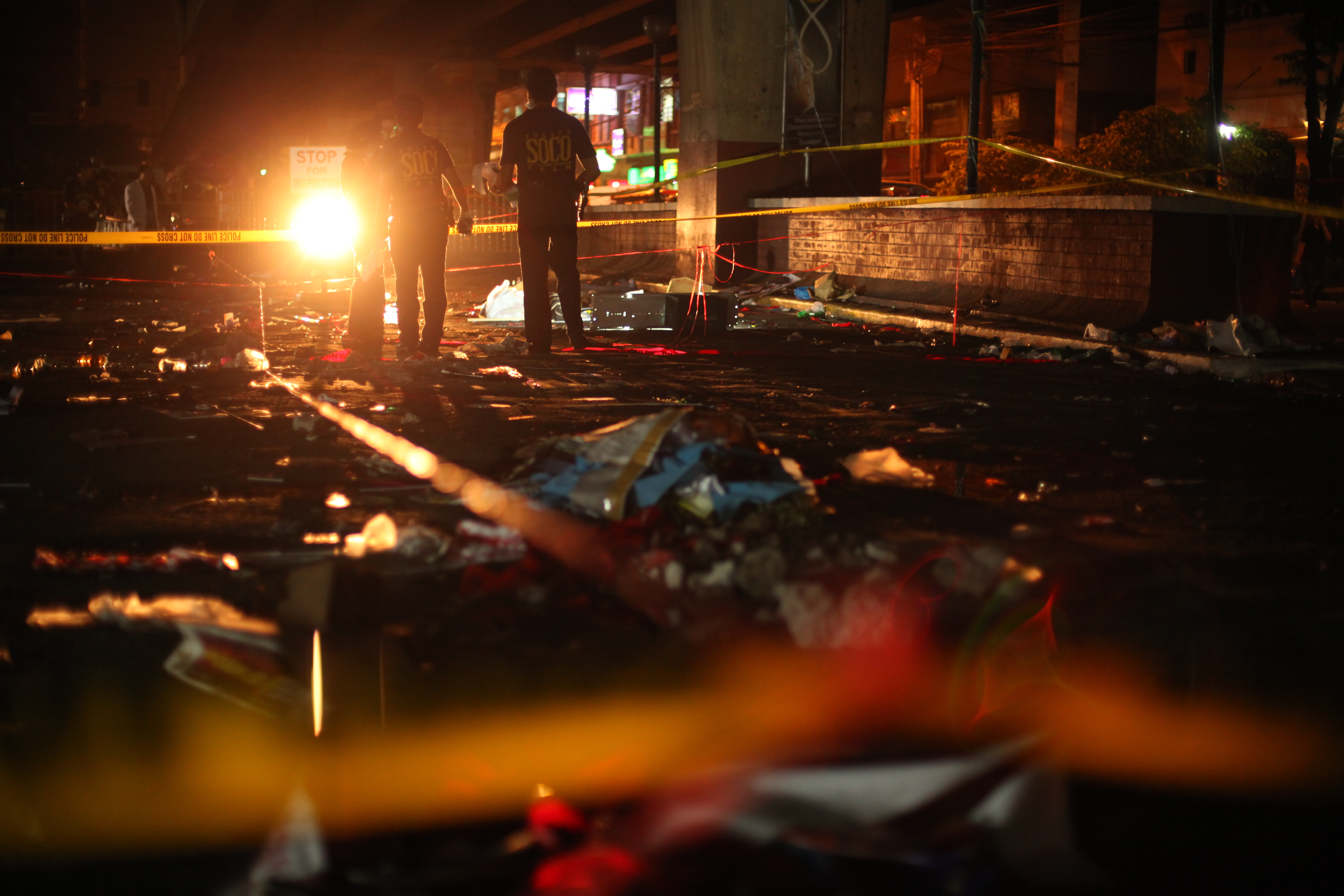 Scene of the Crime Operatives gather evidences from the blast site. The blast injured about 40 people, majority of those are students.